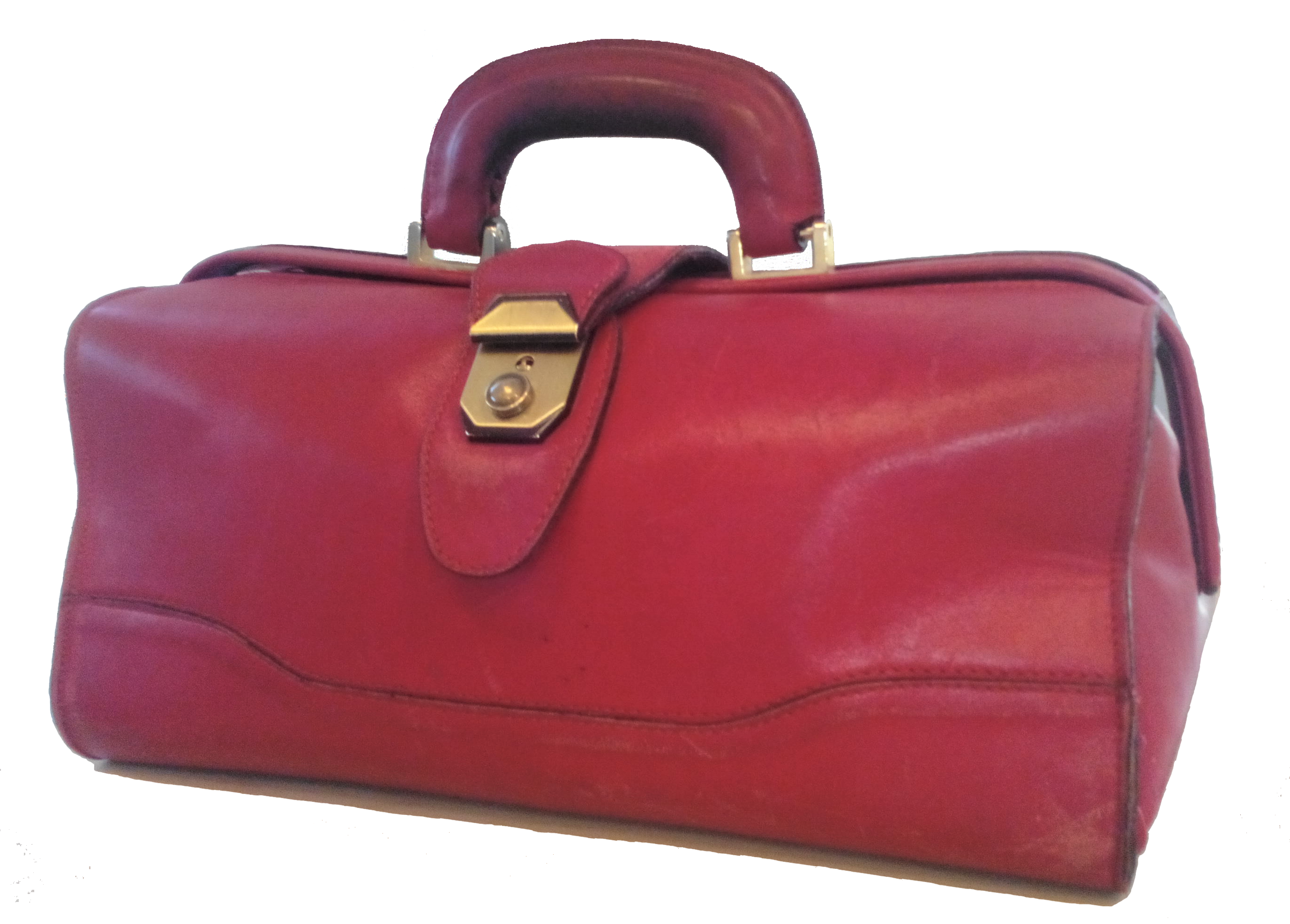 Medical bags.